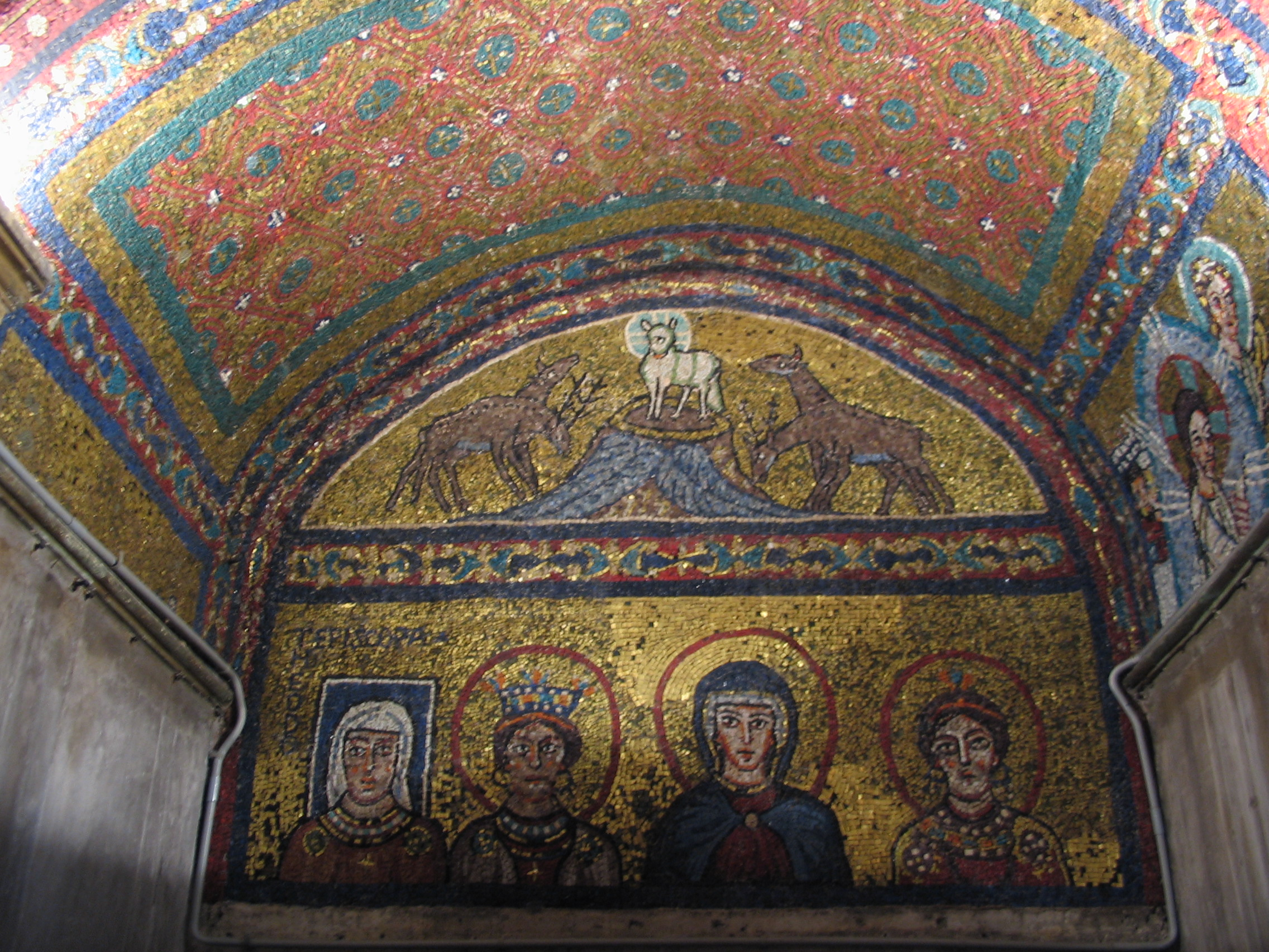 Mosaic in San Zeno chapel of Santa Prassede